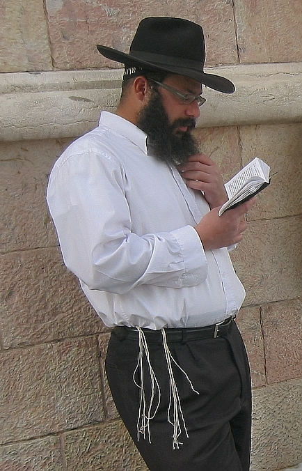 Orthodox Jewish man praying from a siddur, wearing a fedora, Yechi yarmulke, and tallit katan with tzizit showing